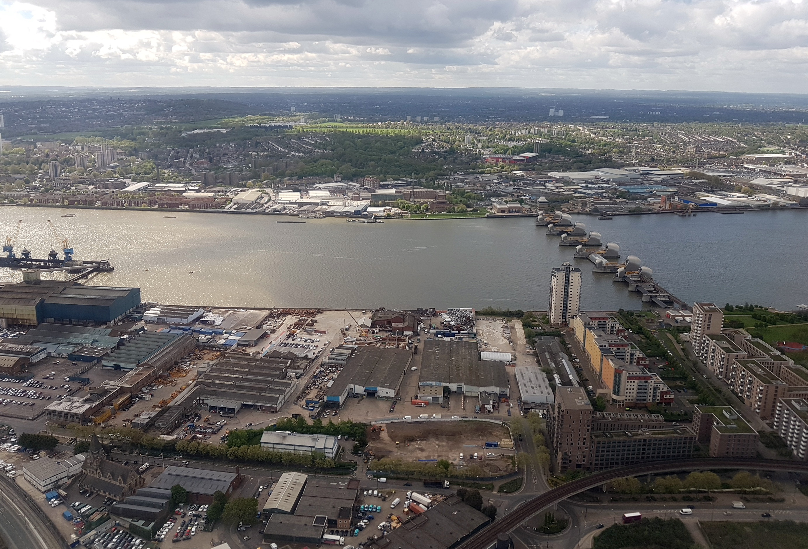 Aerial view of the river Thames and the Thames Barrier, shortly after take-off from London City Airport, with Silvertown south of the river, and Woolwich Riverside north of the river.